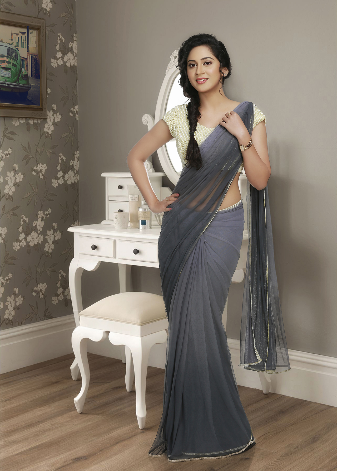 Actress Miya George at Star & Style Magazine shoot by Seny P Arukattu